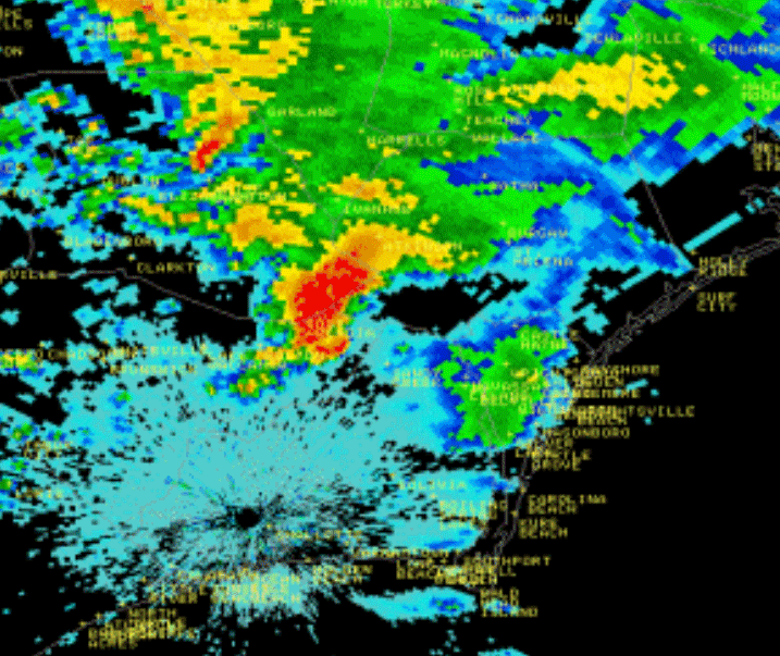 Radar image of the storm that spawned a tornado in Riegelwood, North Carolina on November 16, 2006.